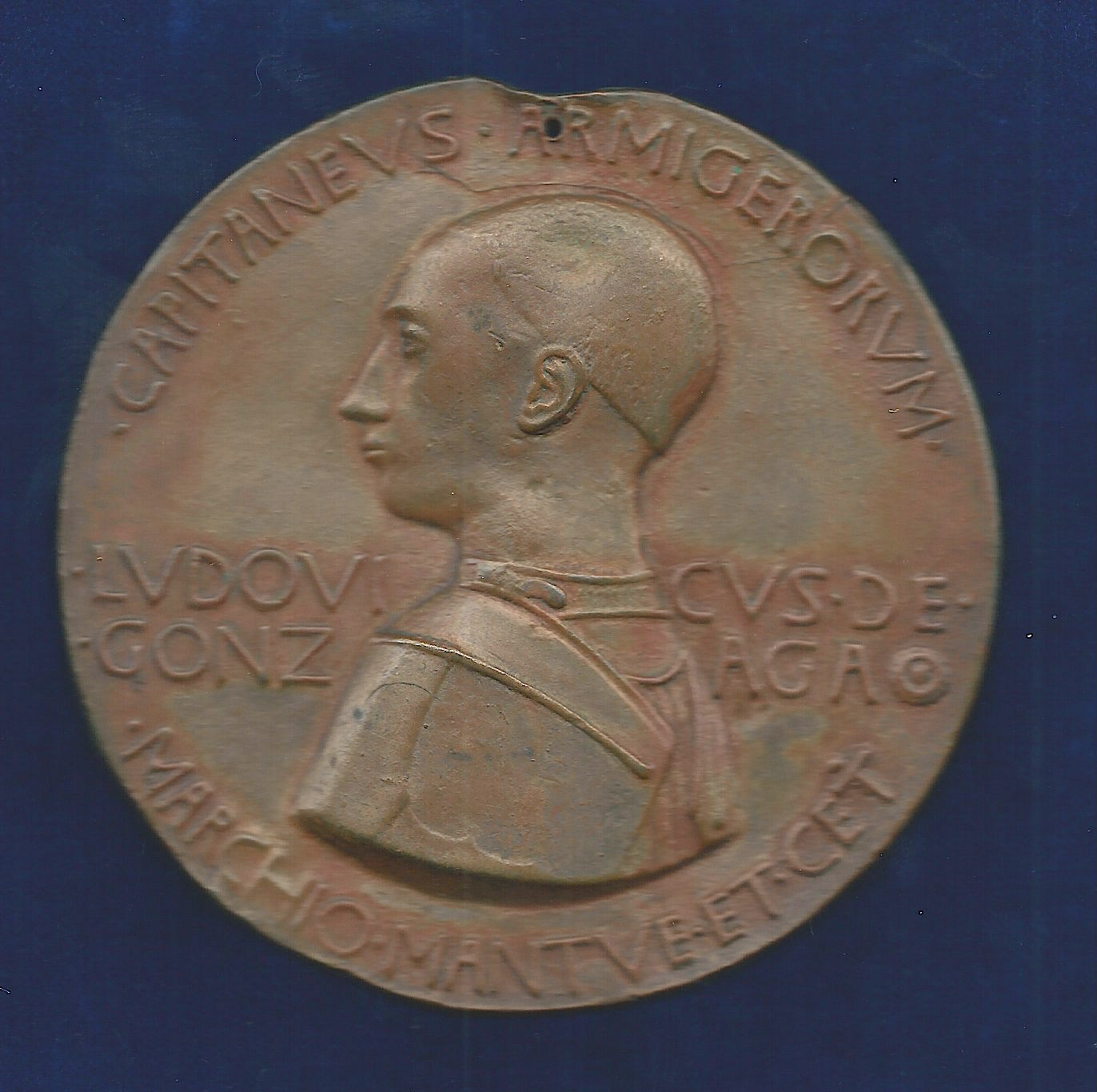 ND medal (about 1440) d. = 100 mm. Ludovico III Gonzaga, Marquis of Mantua, 1414 Mantua - 1478 Goito, Italy Portrait l. dividing 2 lines: "· LVDOVICVS · DE · GONZAGA ·", around: "· CAPITANEVS · ARMIGERORVM · MARCHIO · MANTVE · ET · CET ·". / uniface electrotype medallion. Forrer IV, p. 579. Medallist: Antonio Pisano (Pisanello), 1395 Pisa - 1455 Rome Condition: EXTREMELY FINE, a bump at 12 o'clock.